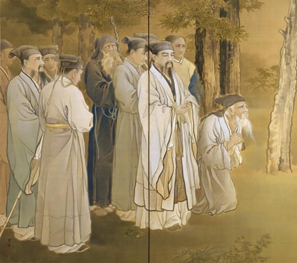 Left screen "Lamenting over the Tomb of a Sage"